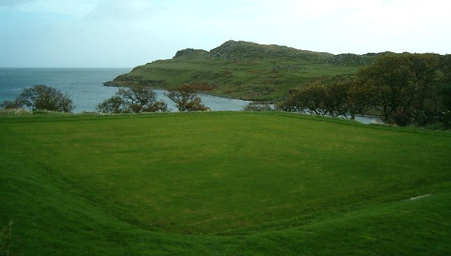 Looking towards Port Mor from Ardmore, Isle of Islay.